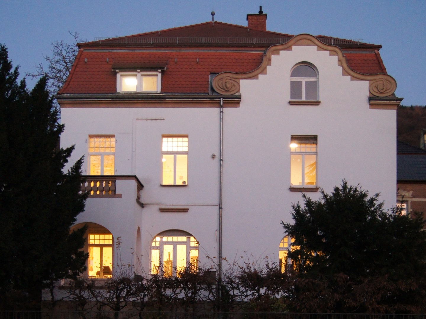 Heidelberg, Kußmaulstraße 10